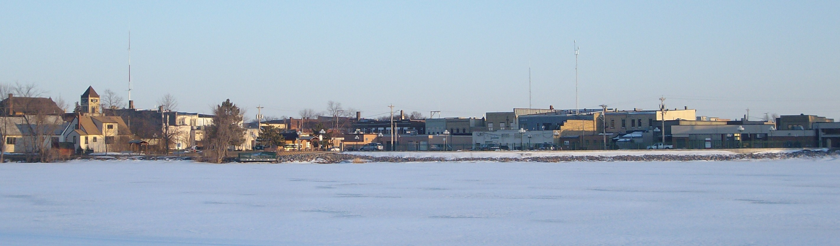 View of Downtown Little Falls for across the Mississippi in La Bourget Park